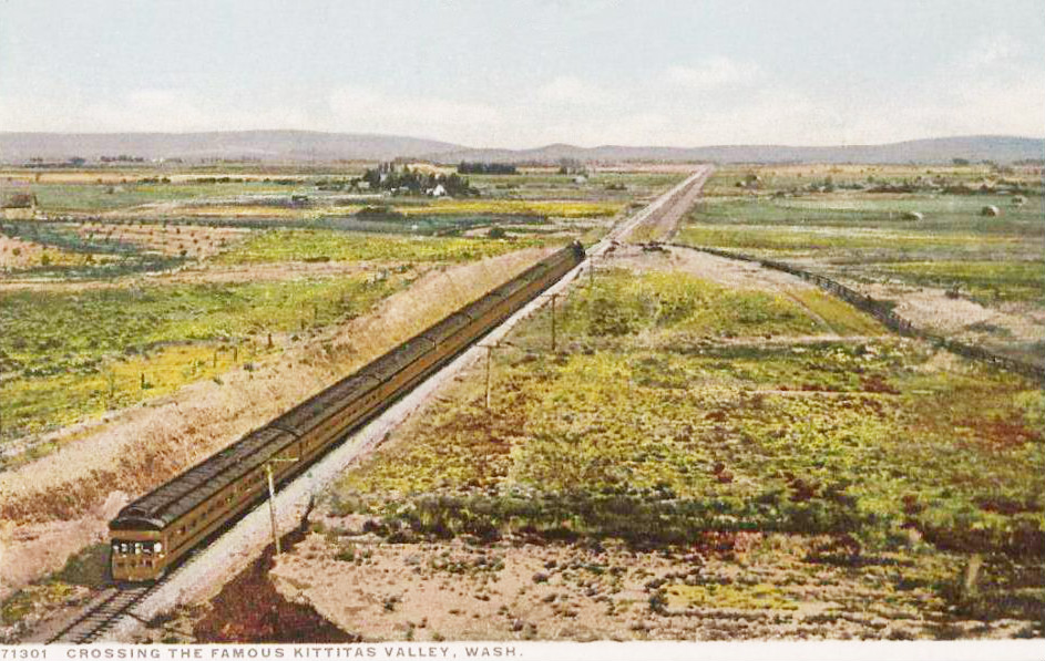 Postcard tinted photo of a Chicago, Milwaukee and St. Paul Railroad train crossing the Kittitas Valley in Washington State. The train pictured is either The Olympian or The Columbian; both traveled this route.